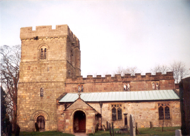 All Saints Church, Bradbourne. All Saints Church, Bradbourne taken on a dull winter's day.